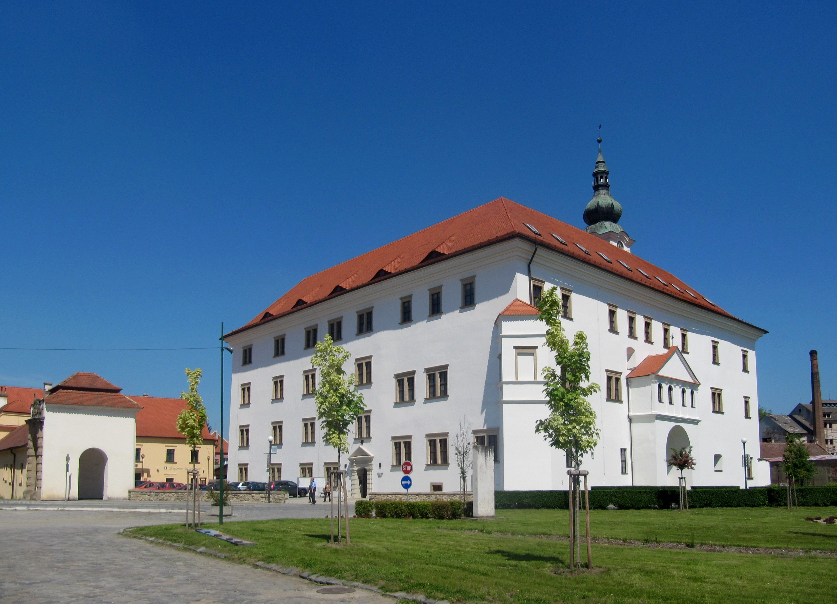 Uherský Ostroh in Uherské Hradiště District, Czech Republic. Castle. This photograph was taken within the scope of the third year of the 'Czech Municipalities Photographs' grant.